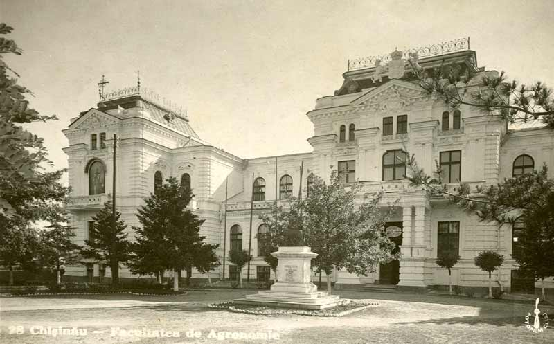 Sfatul Ţării Palace, at 111 Alexei Mateevici, Chişinău. In front of the building Capitoline Wolf